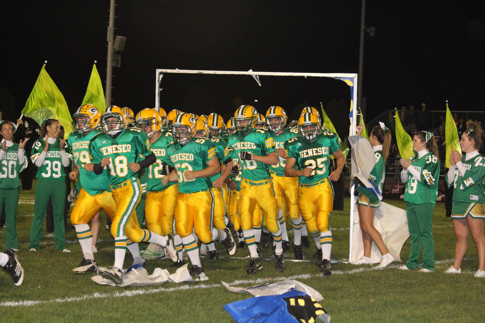 Geneseo Green Machine v Ottawa Sept 30, 2011